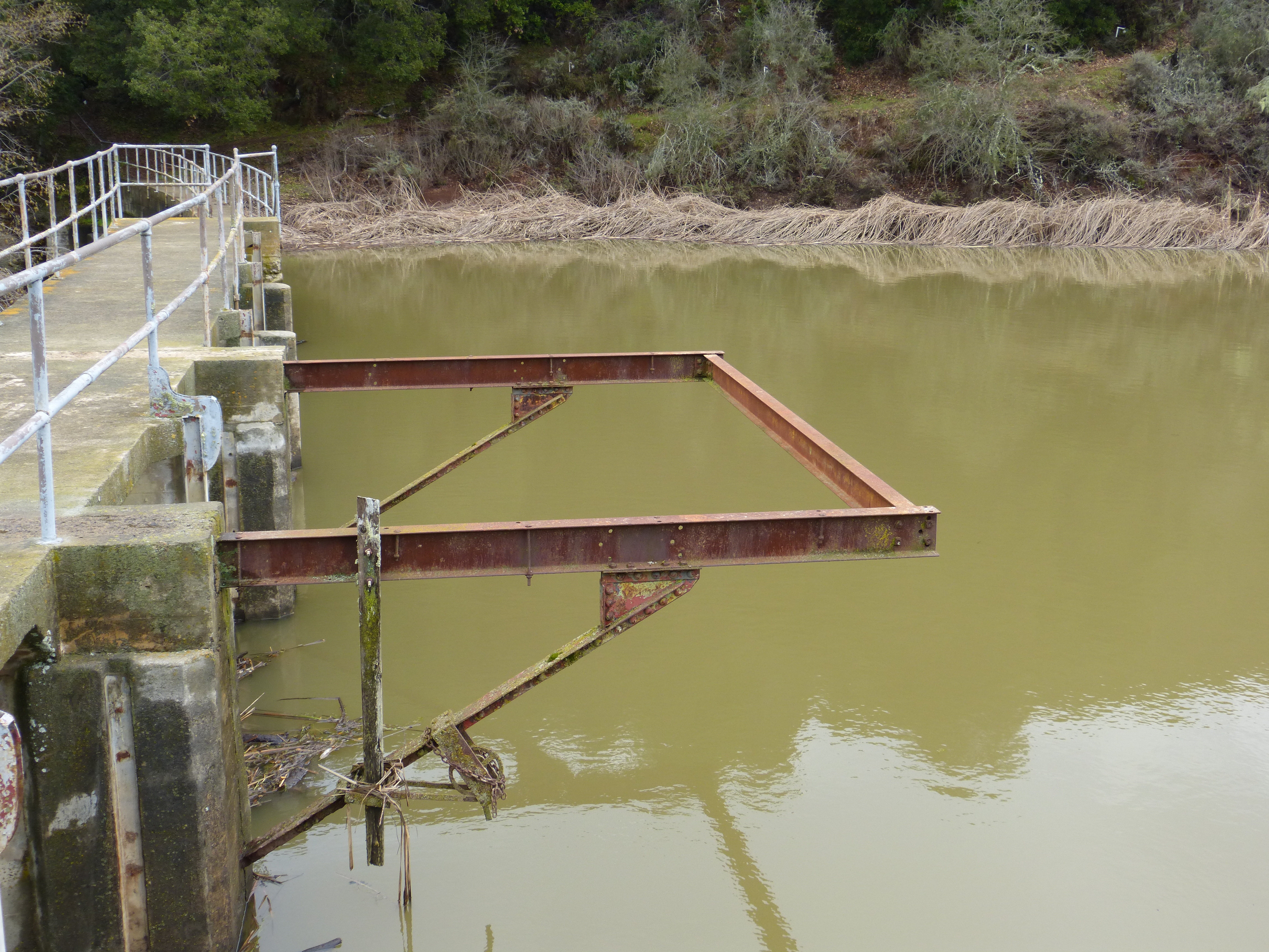 A metal frame on Searsville Dam which at one time supported a diving platform. (Source: Wenner, Nick "Diving Deeper into Searsville." Pacific Standard, 2 August 2010. Accessed on 3 October 2017.) This photo is from 2013.